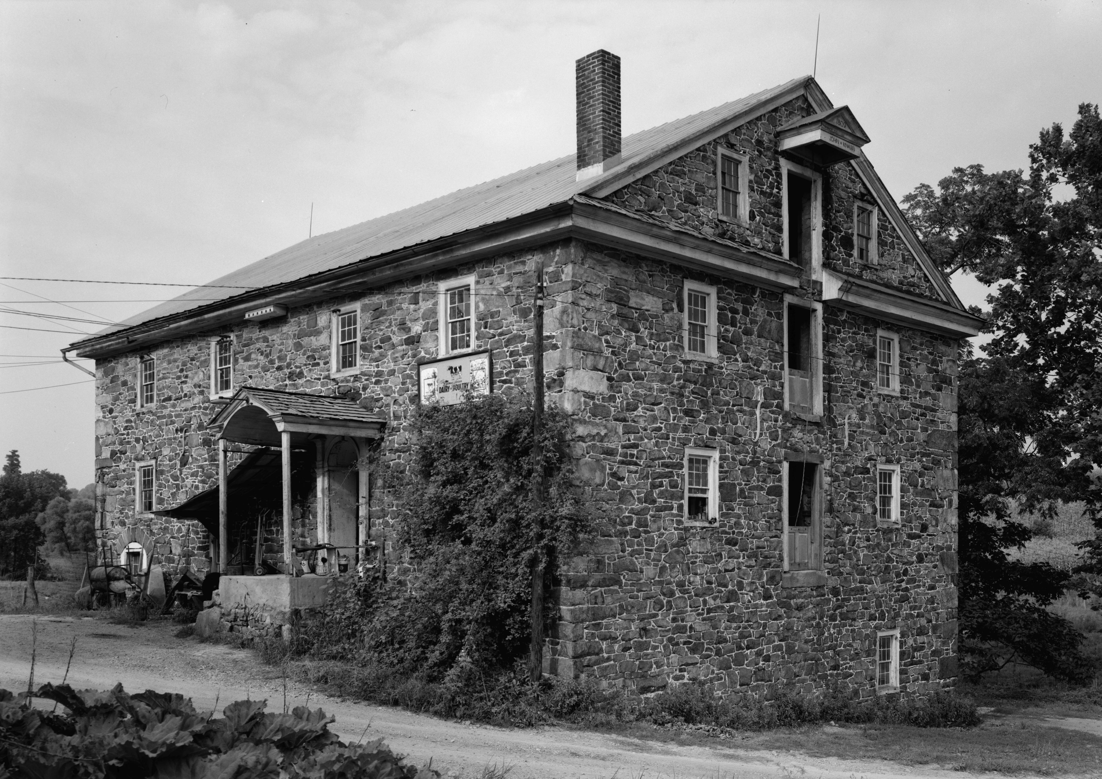 Northwestern and southwestern sides of the Knabb-Bieber Mill, located on Monocacy Creek in Oley Township, Berks County, Pennsylvania, United States. Built in 1809, it is listed on the National Register of Historic Places.